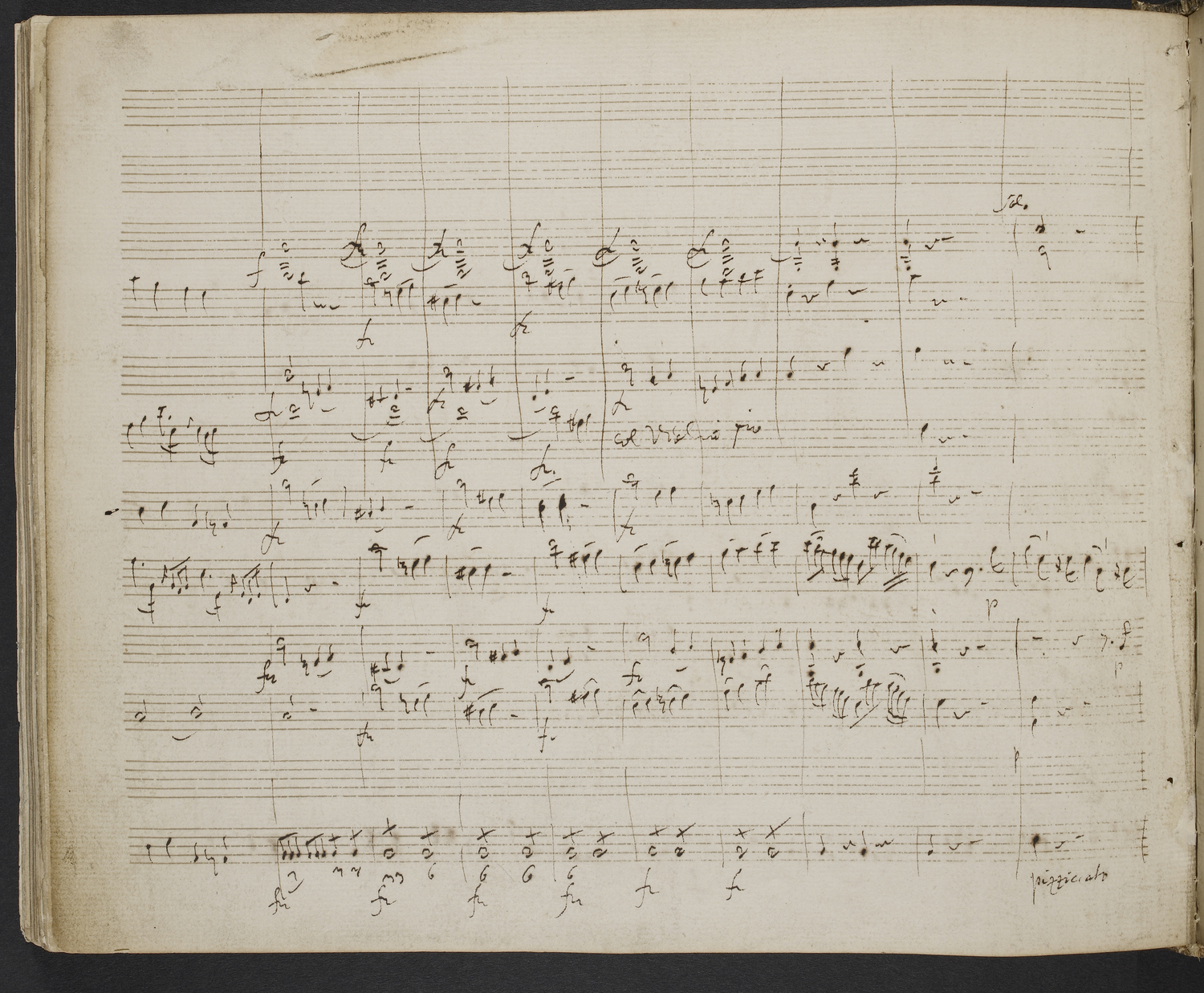 Symphony no. 95. In the composer's hand.